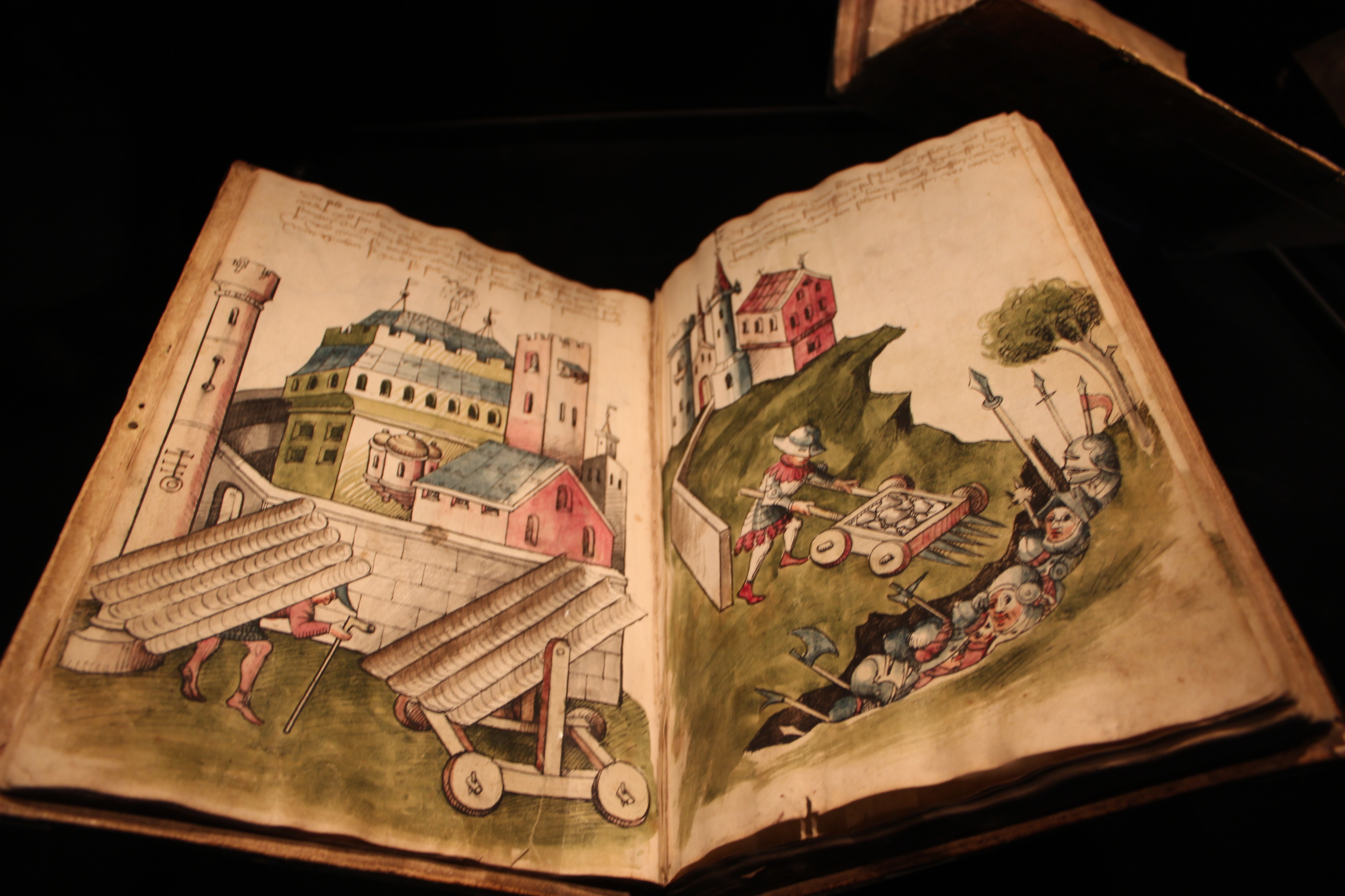 The Fightbook of Hans Talhoffer often referred to as Ms.Thott.290.2º. On display at The Danish Castle Centre in Vordingborg